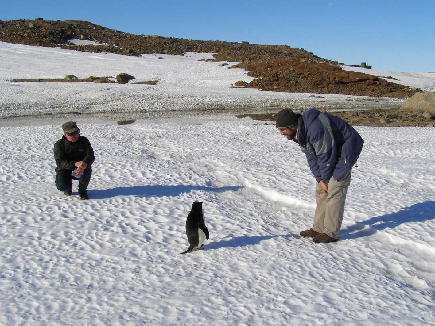 Penguin visits researchers